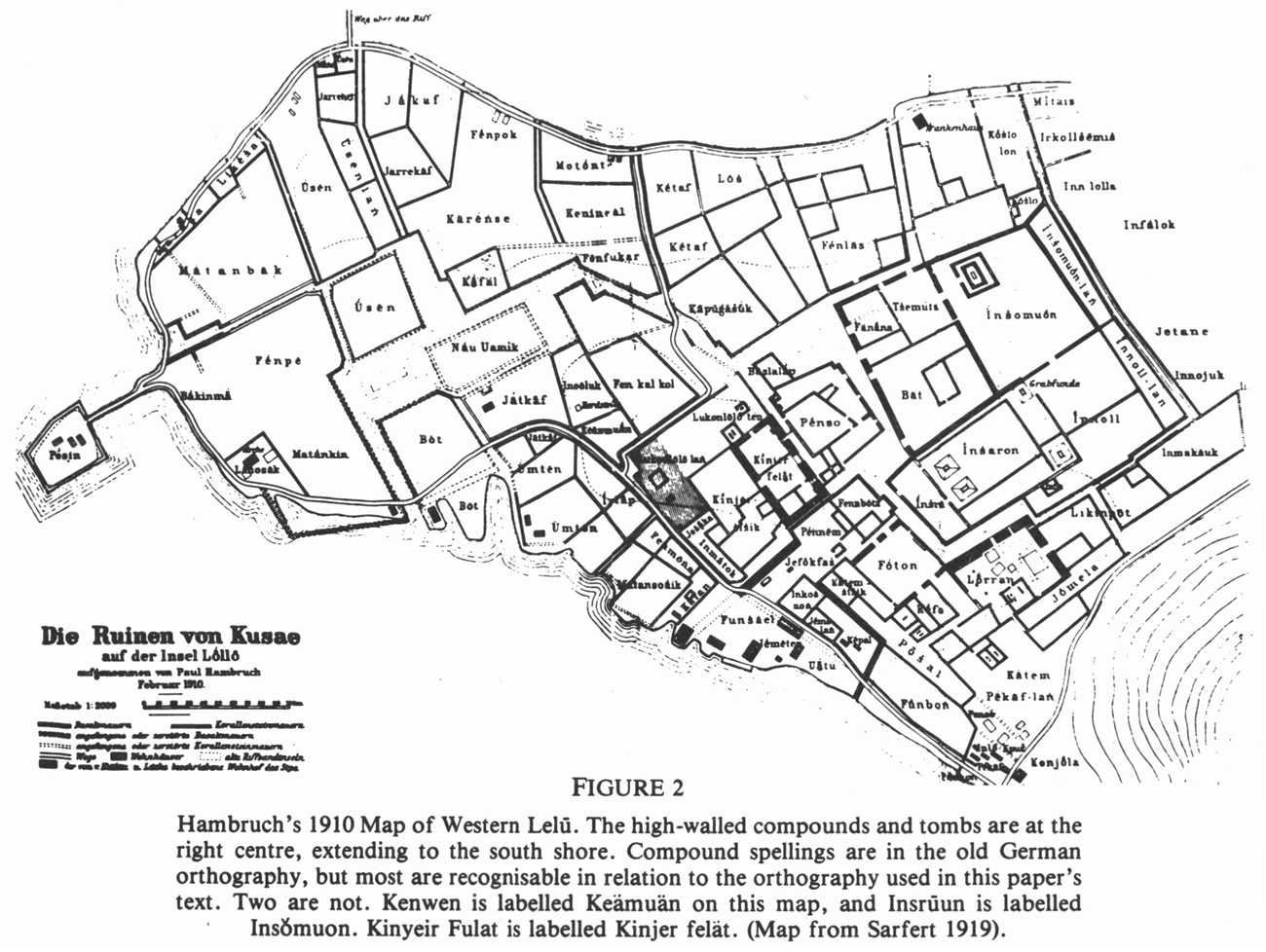 Archaeologial map of Lelu (Kosrae Island, Federated States of Micronesia).